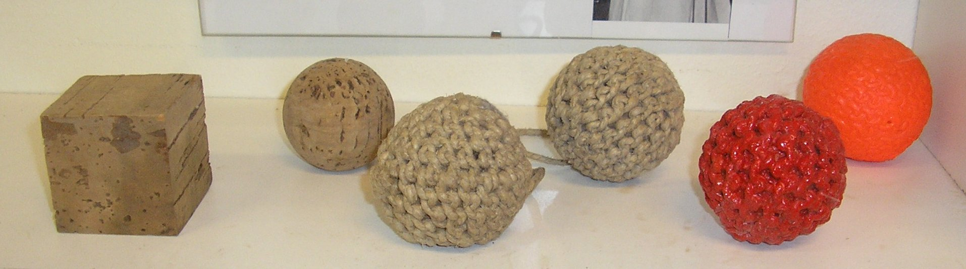 The stages in making a cork bandy ball. From left to right: a block of cork, the rounded cork, knitting the outer layer (two stages), painting it orange. To the rightmost a modern, plastic bandy ball.